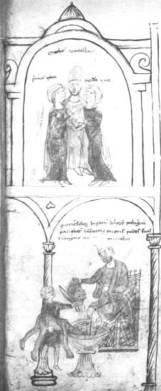 Matthew Ajello from the Liber ad honorem Augusti of Peter of Eboli, en:1196. Matthew is depicted first with two wives and then bathing his feet in the blood of children.